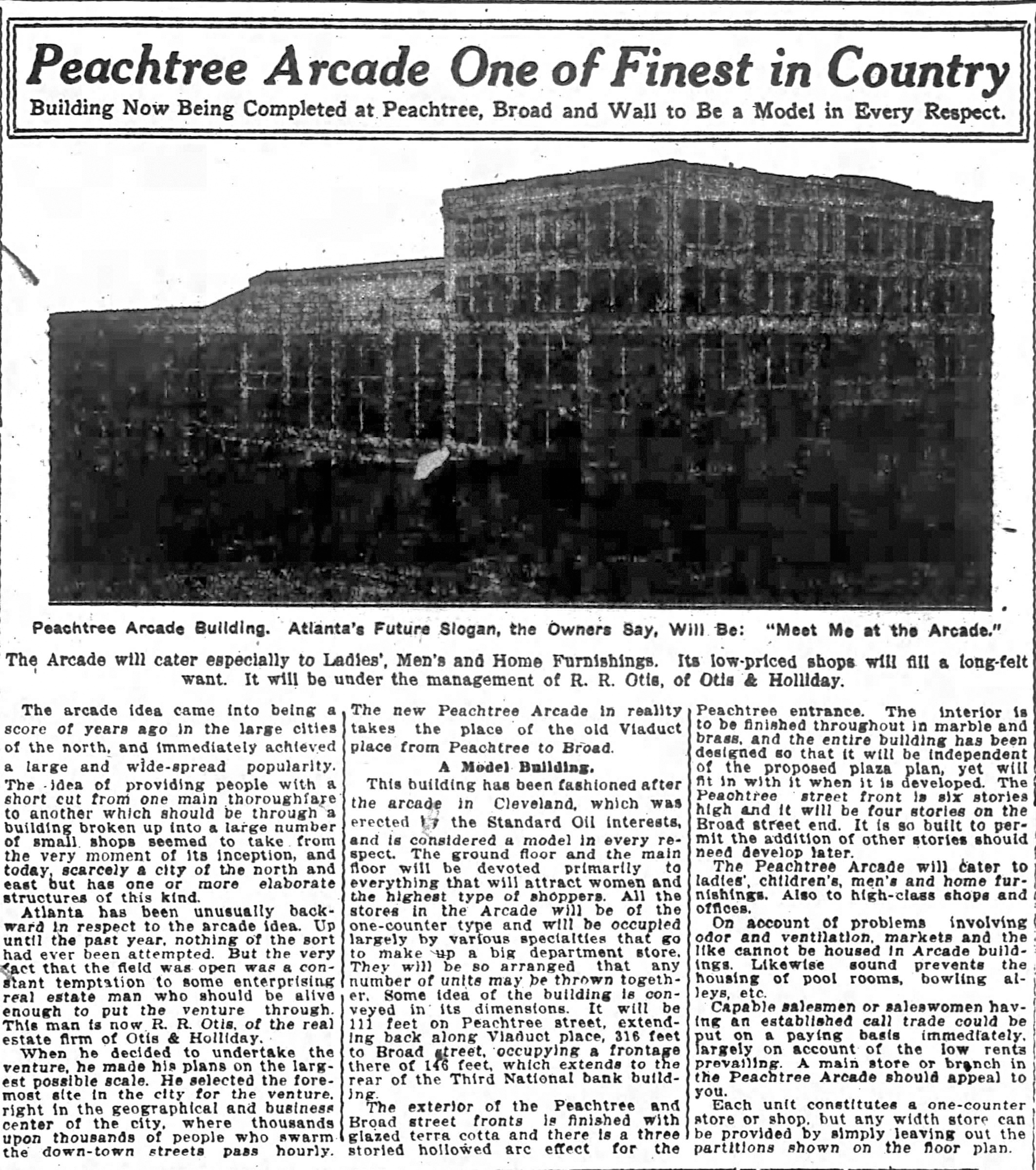 Atlanta Constitution article from 1917 featuring opening of the Peachtree Arcade